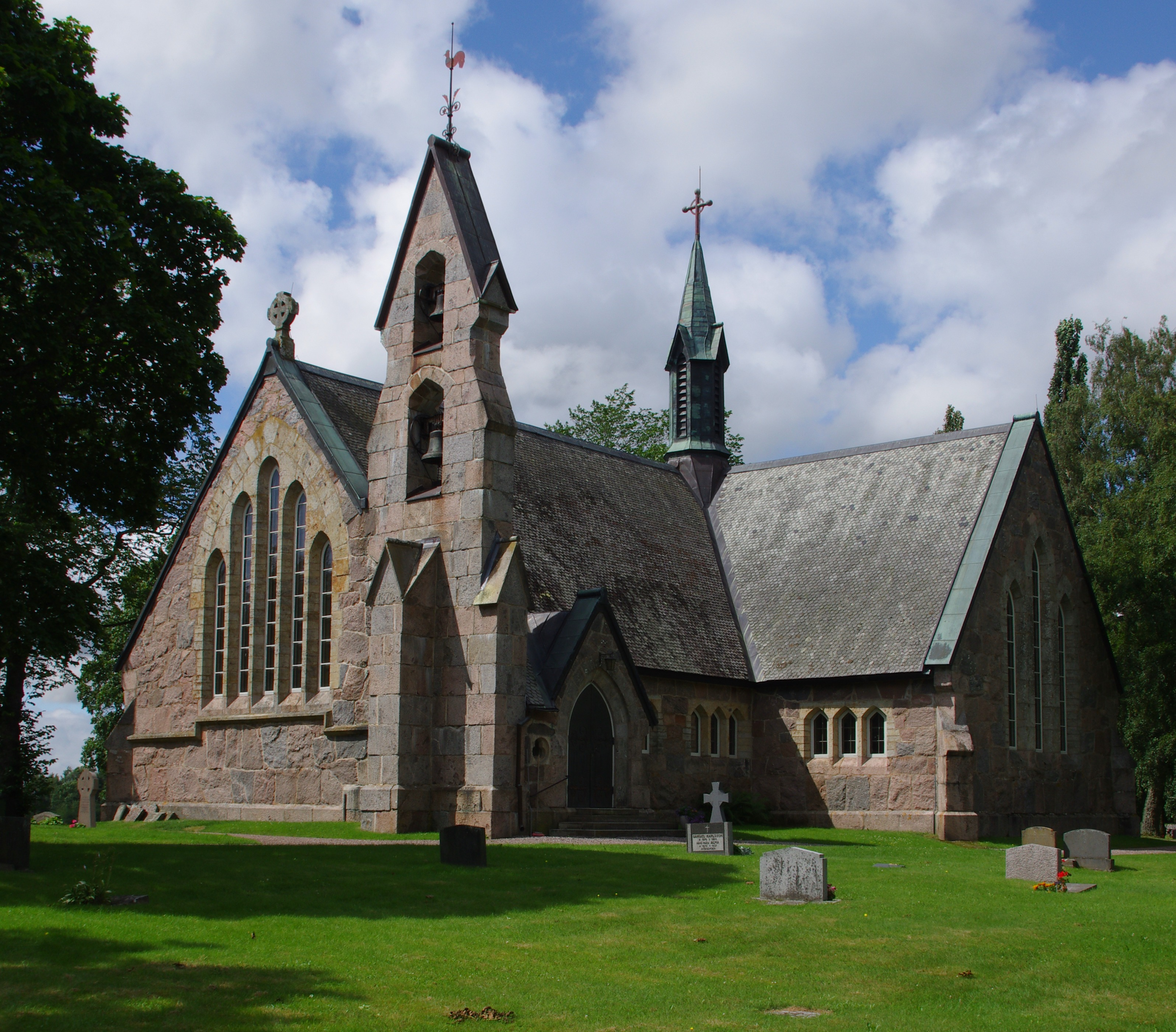 Vinköls kyrka (english:Vinköl church) in Västergötland and Skara municipality in Västragötaland county, Sweden.